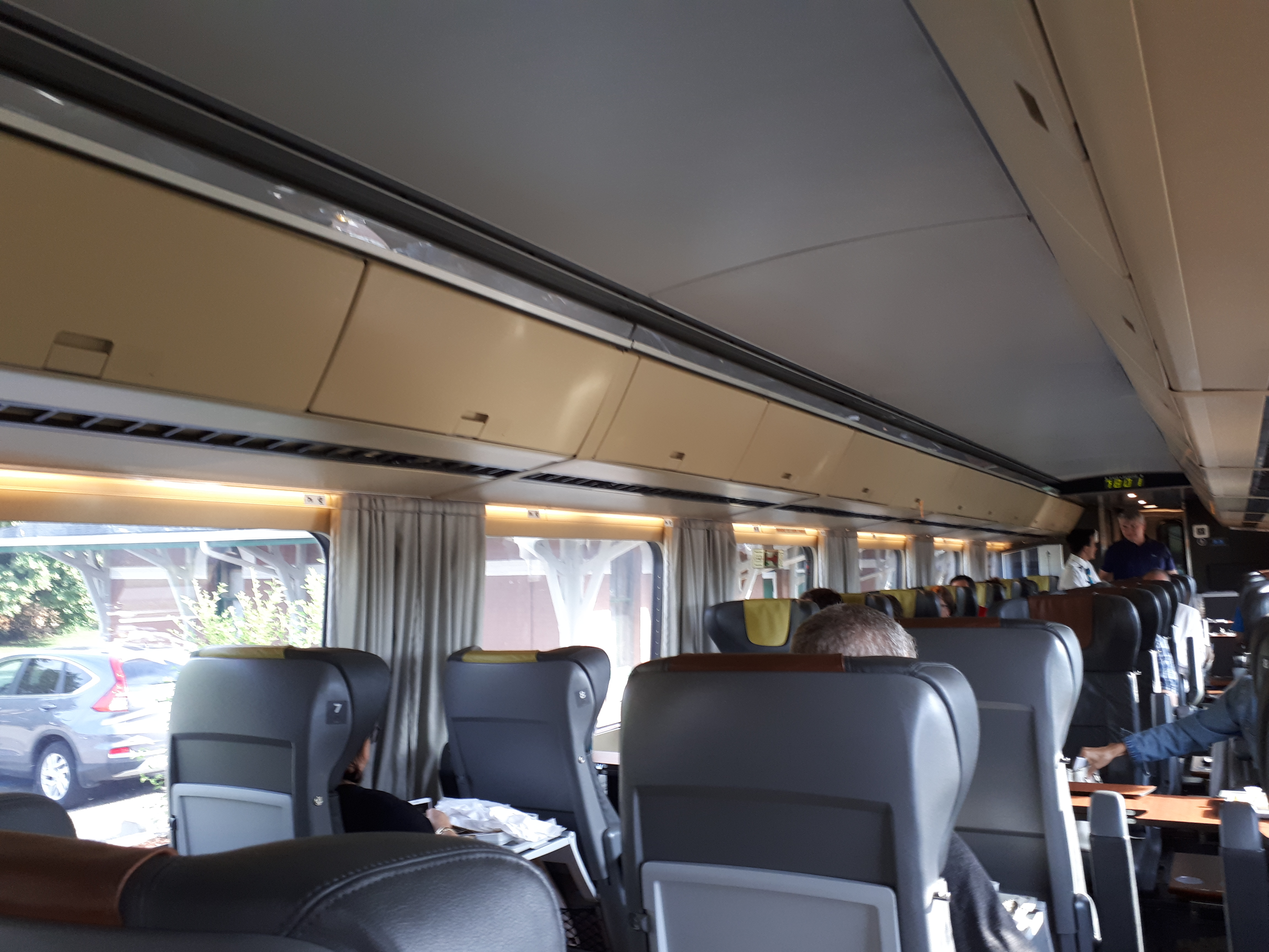 View of the Chatham, Ontario VIA rail station and freight shed, taken from a VIA train passing by both buildings.